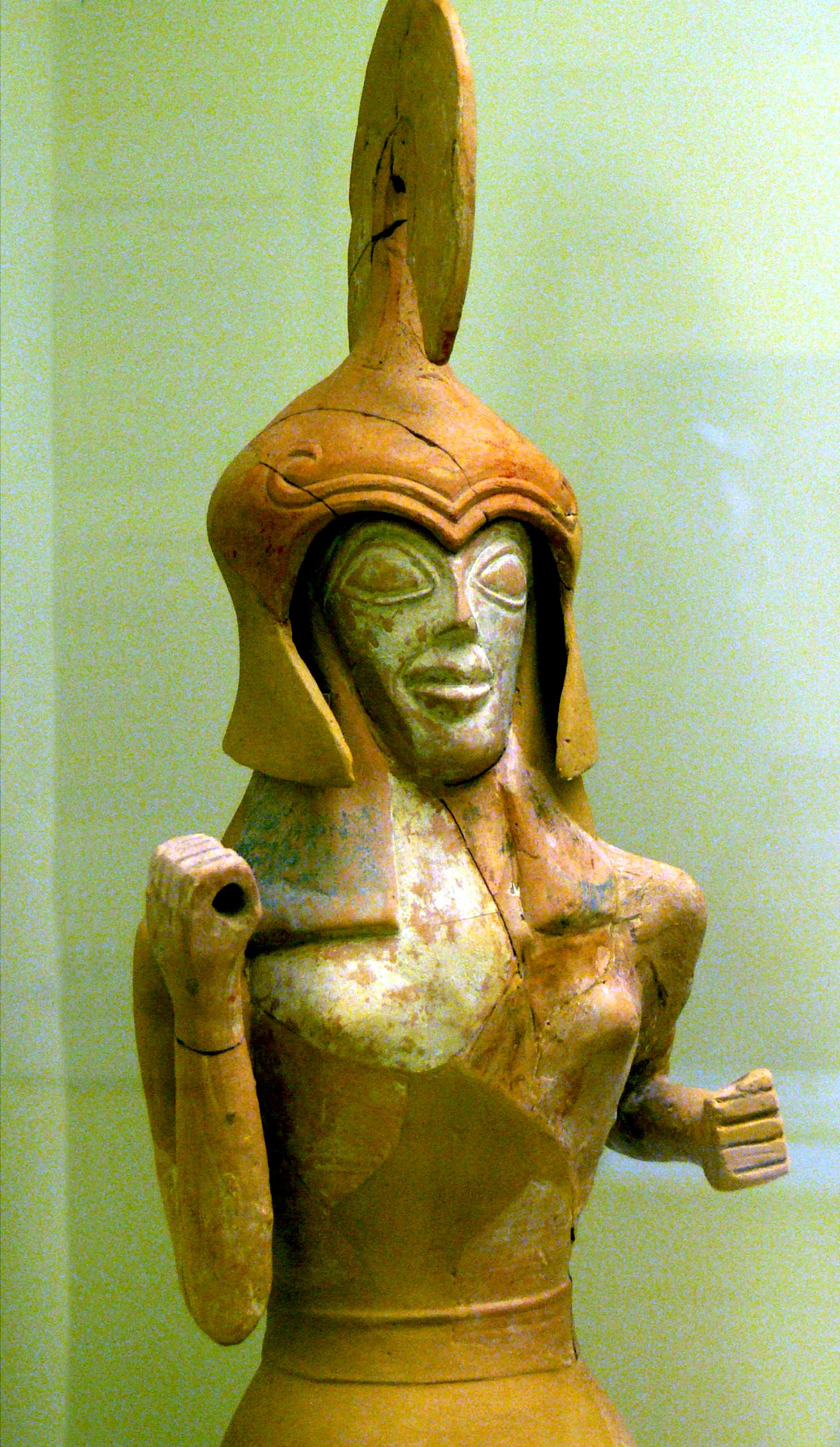 Archeological Museum of Herakleion. Clay figurine of goddess Athena, type Palladion, from Gortyn. Early Archaic period ( 7th c. B.C. )